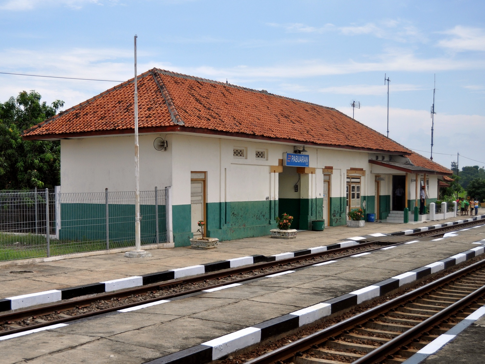 Pabuaran train station in Subang, West Java, Indonesia